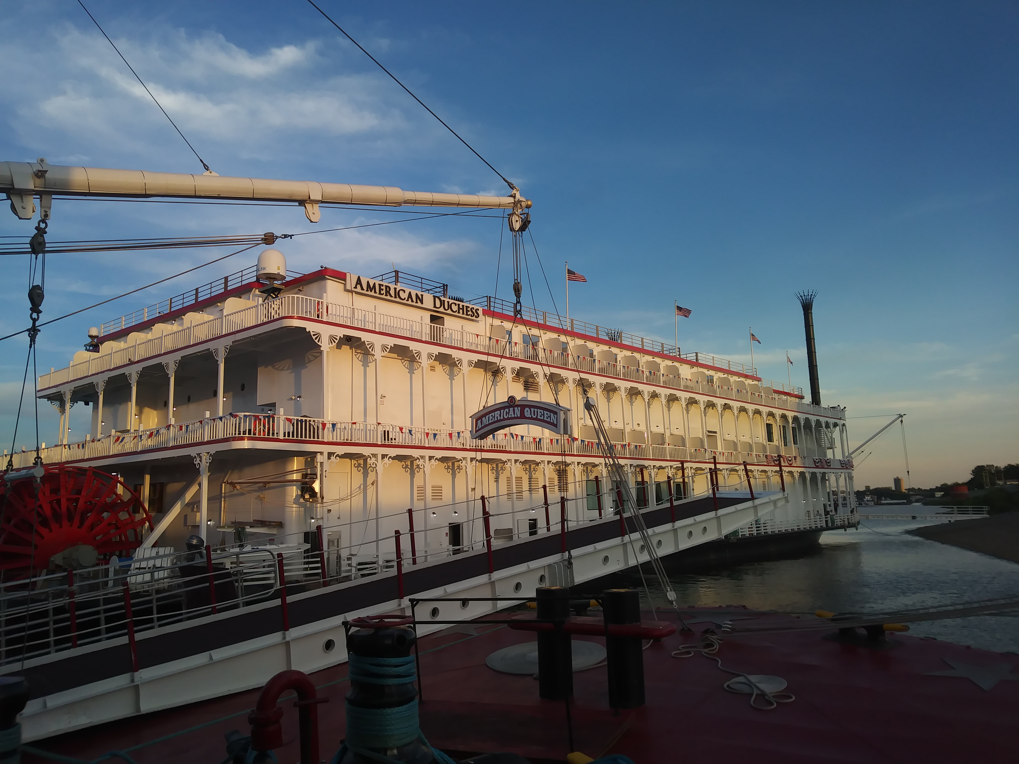 American Duchess seen from the bow of the American Queen in Paducah, Kentucky. This was the first time the two fully-operating sister vessels docked next to each other. Many spectators, both passengers and crew onboard the two vessels and locals onshore came out to witness the event. August 24, 2017.